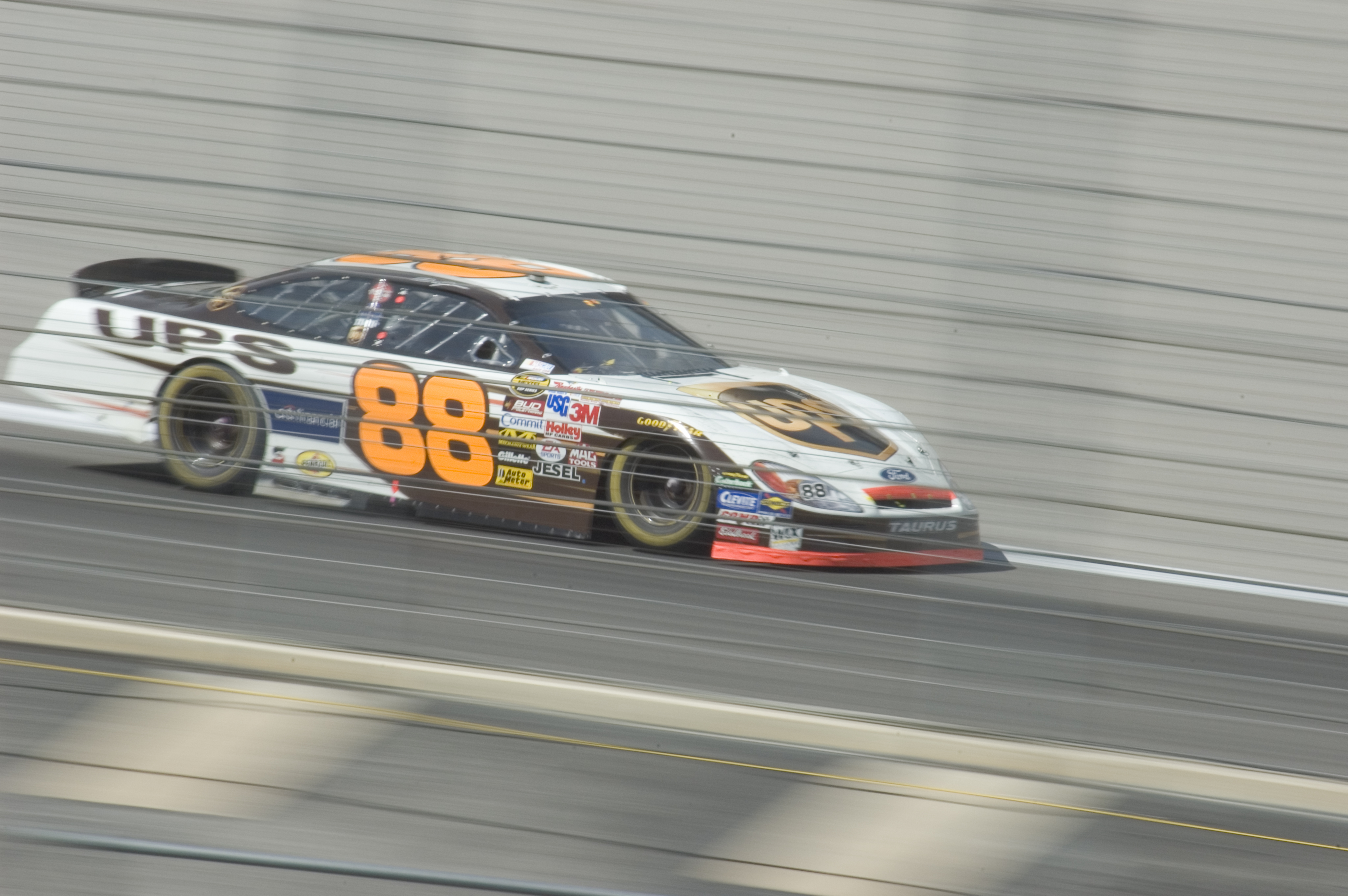 Jarrett drives his car in the 2005 Nascar Samsung/RadioShack 500.